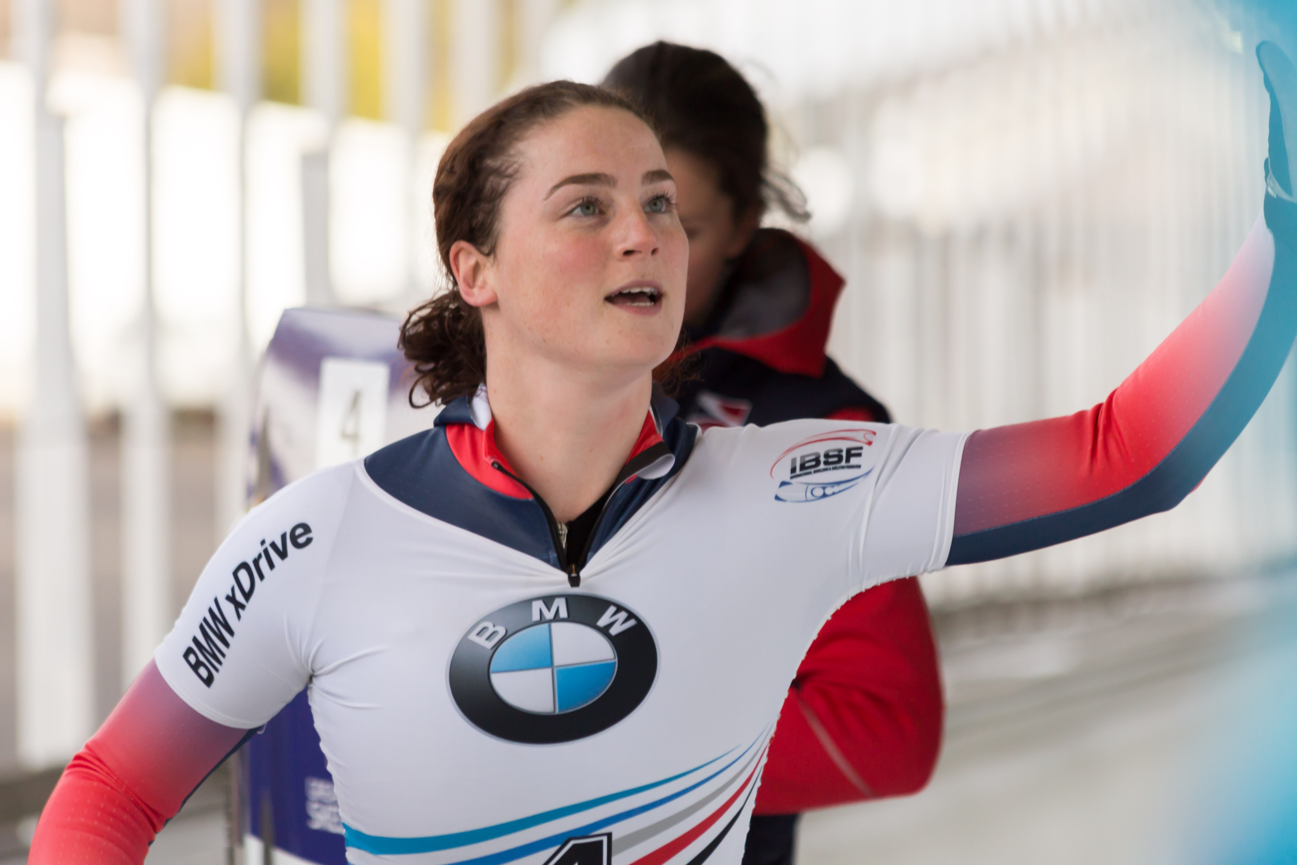 British skeleton athlete Laura Deas accepts congratulations from spectators in the finish area after her second run at the 2017/2018 BMW IBSF World Cup race in Lake Placid. She finished in fifth place with a combined time of 1:50.69.